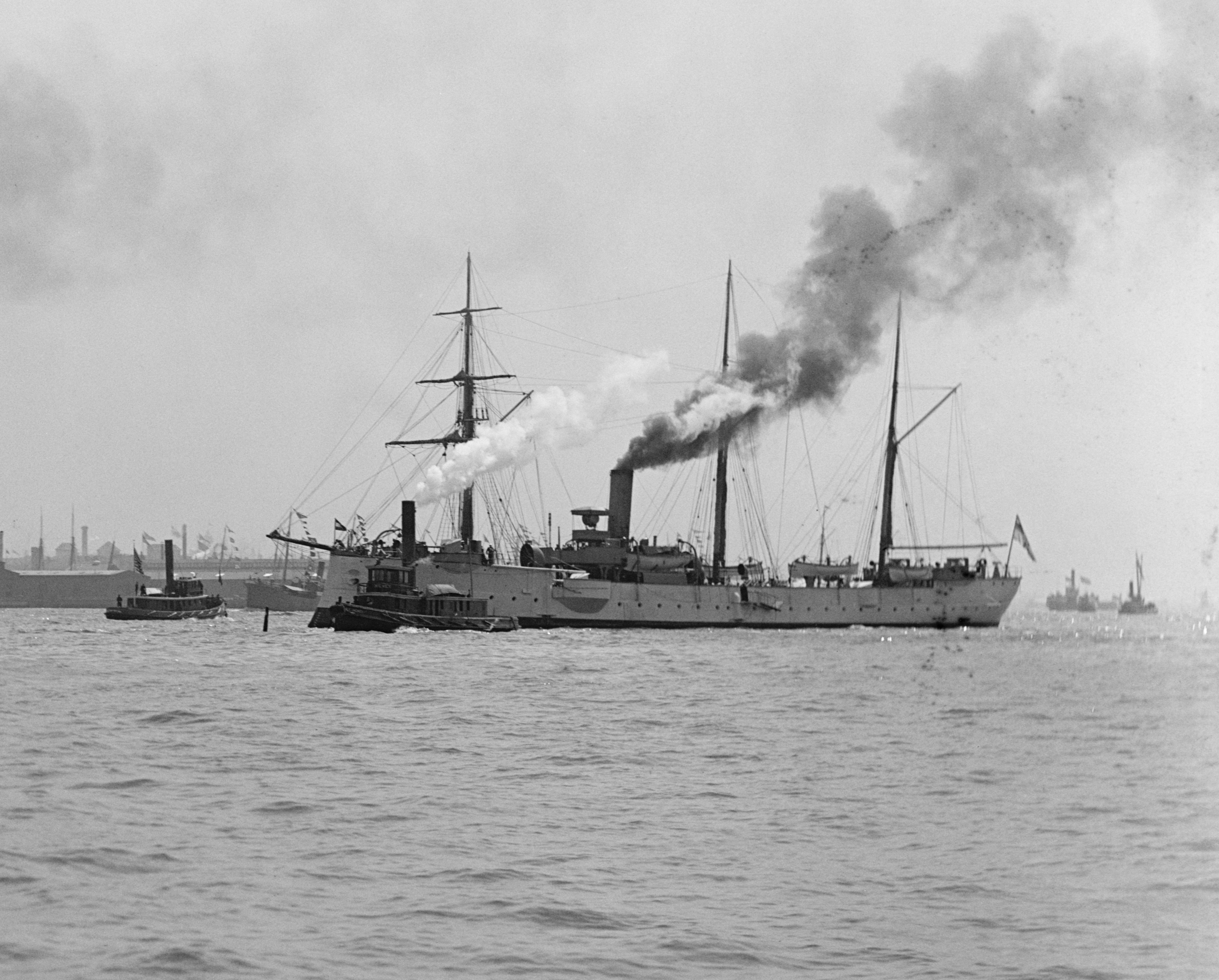 German cruiser Seeadler in New York City in 1893